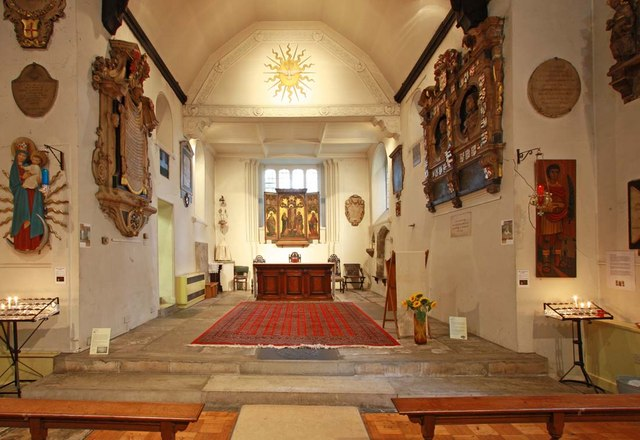 St Pancras (Old Church), London NW1: chancel